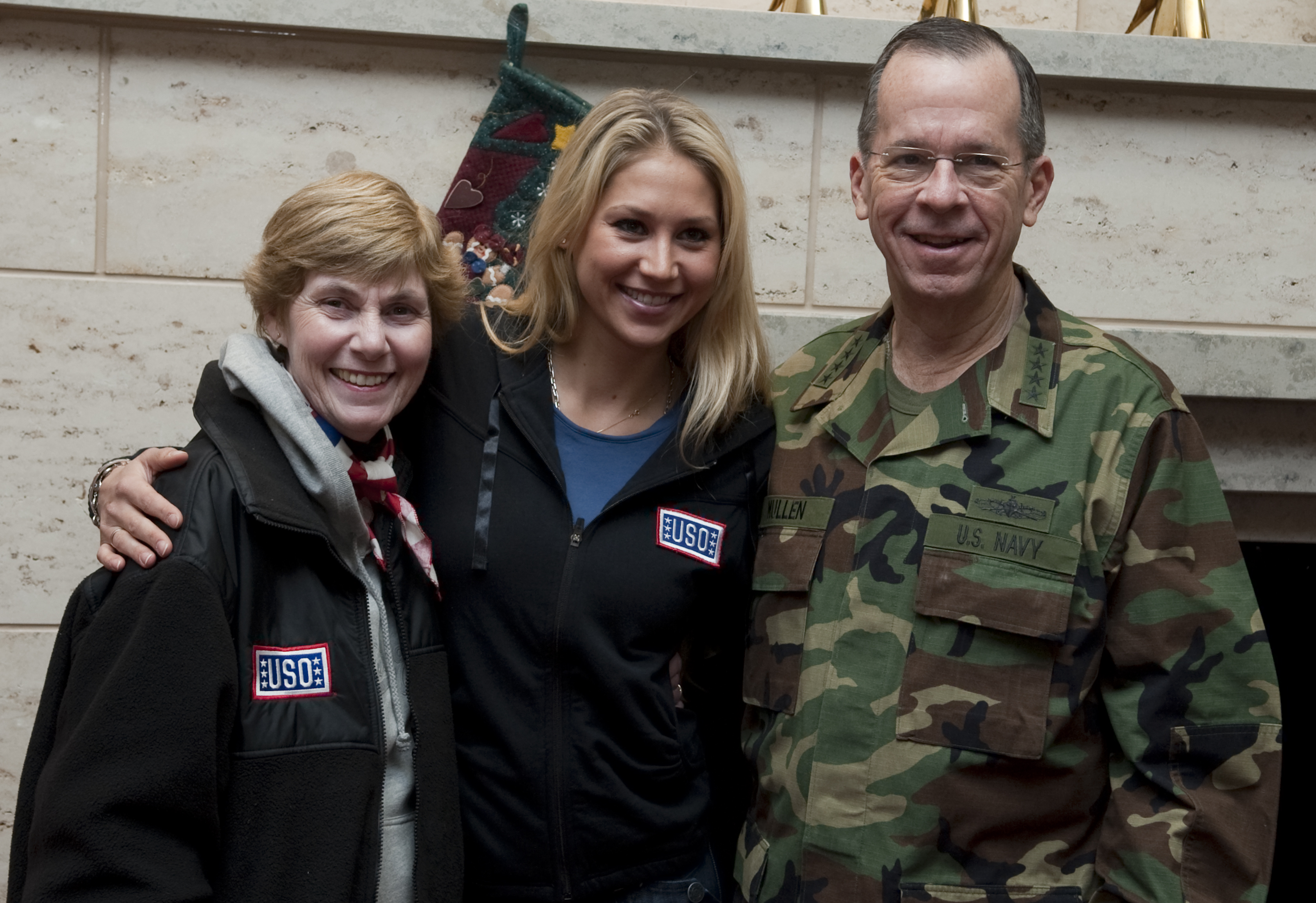 Navy Adm. Mike Mullen, chairman of the Joint Chiefs of Staff at Ramstien Air Base, Germany, Dec. 20, 2009. Mullen and his wife Deborah are hosting the USO Holiday Troop Visit with tennis star Anna Kournikova, comedian Dave Attell, tennis coach Nicholas Bollettiere and musician Billy Ray Cyrus visiting troops in Afghanistan, Iraq and Germany. (DoD photo by Mass Communication Specialist 1st Class Chad J. McNeeley/Released)